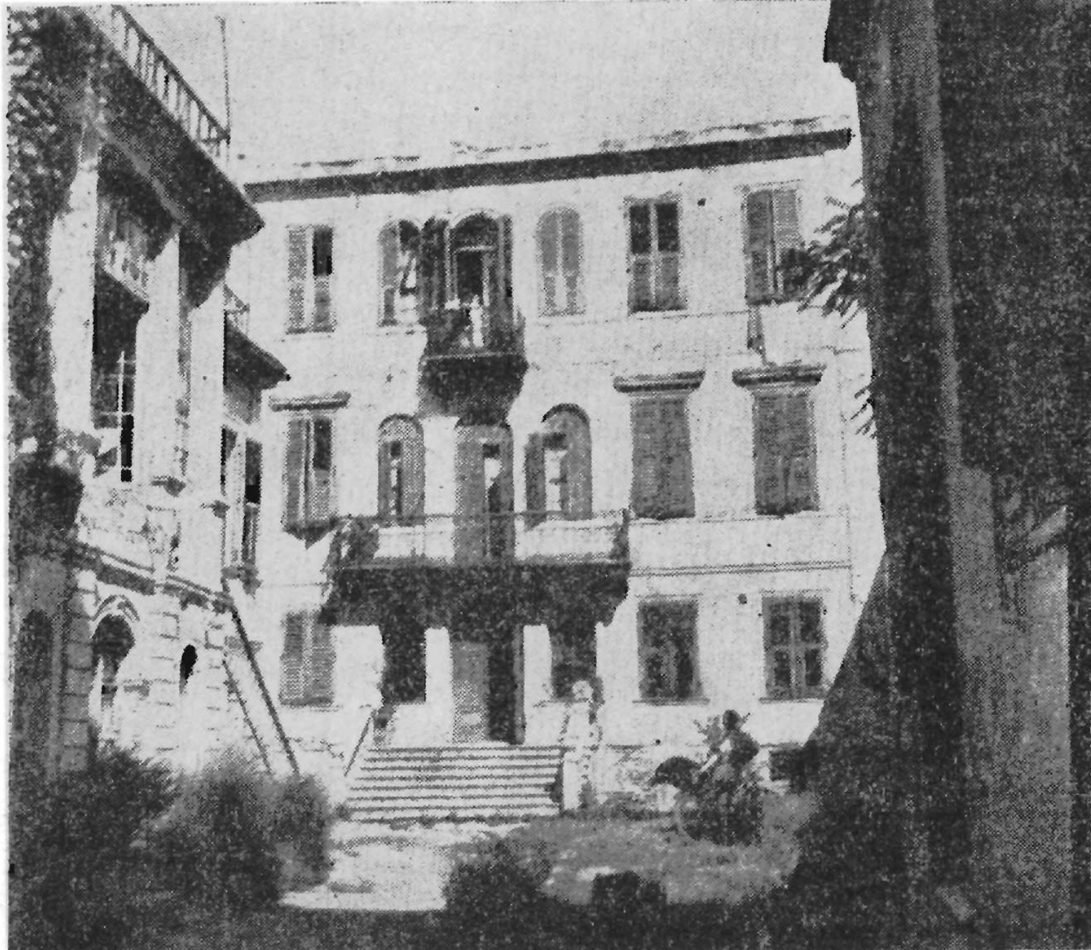 US consulate in Thessaloniki - 1876